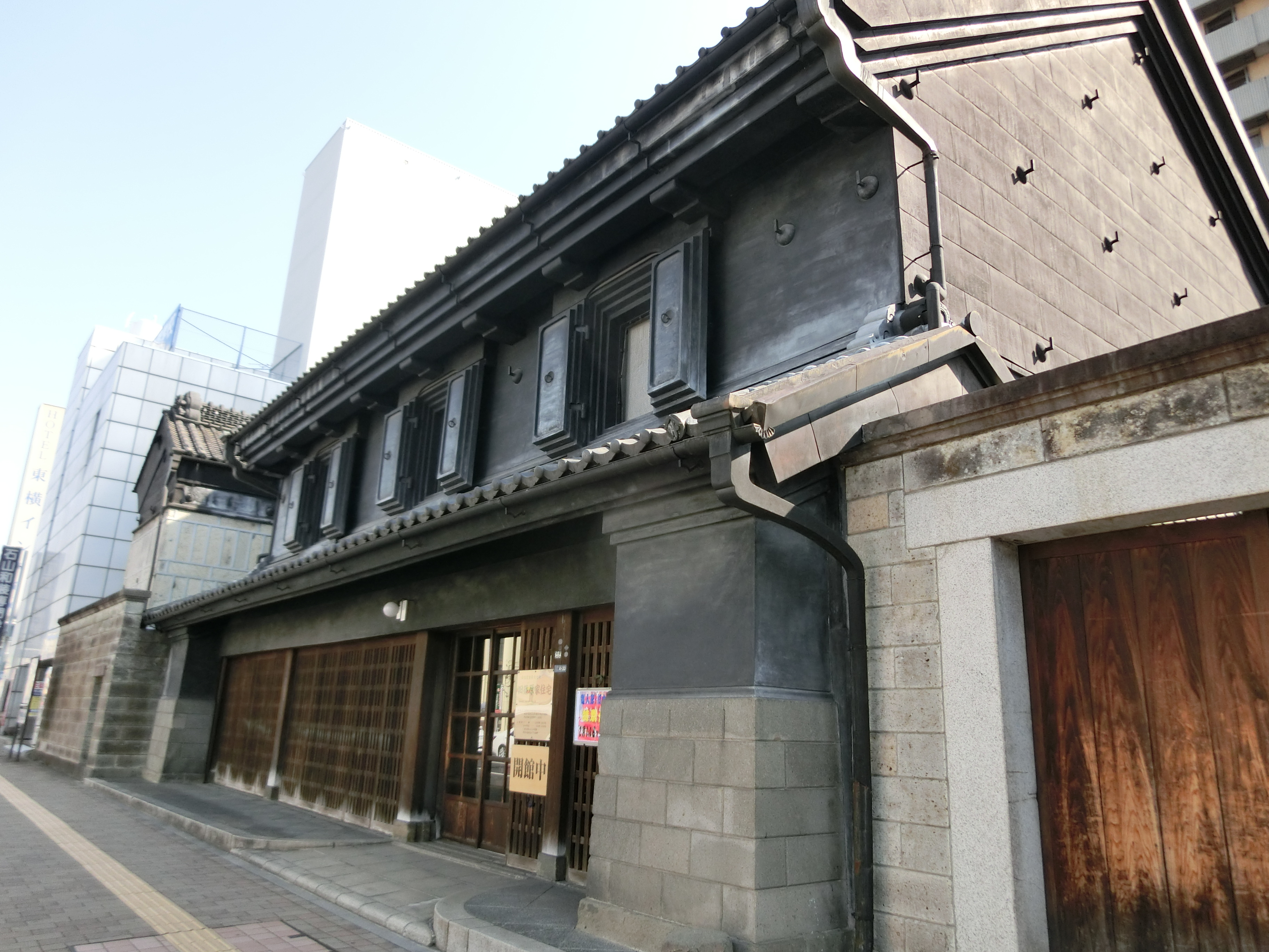 Shinohara House (Utsunomiya)